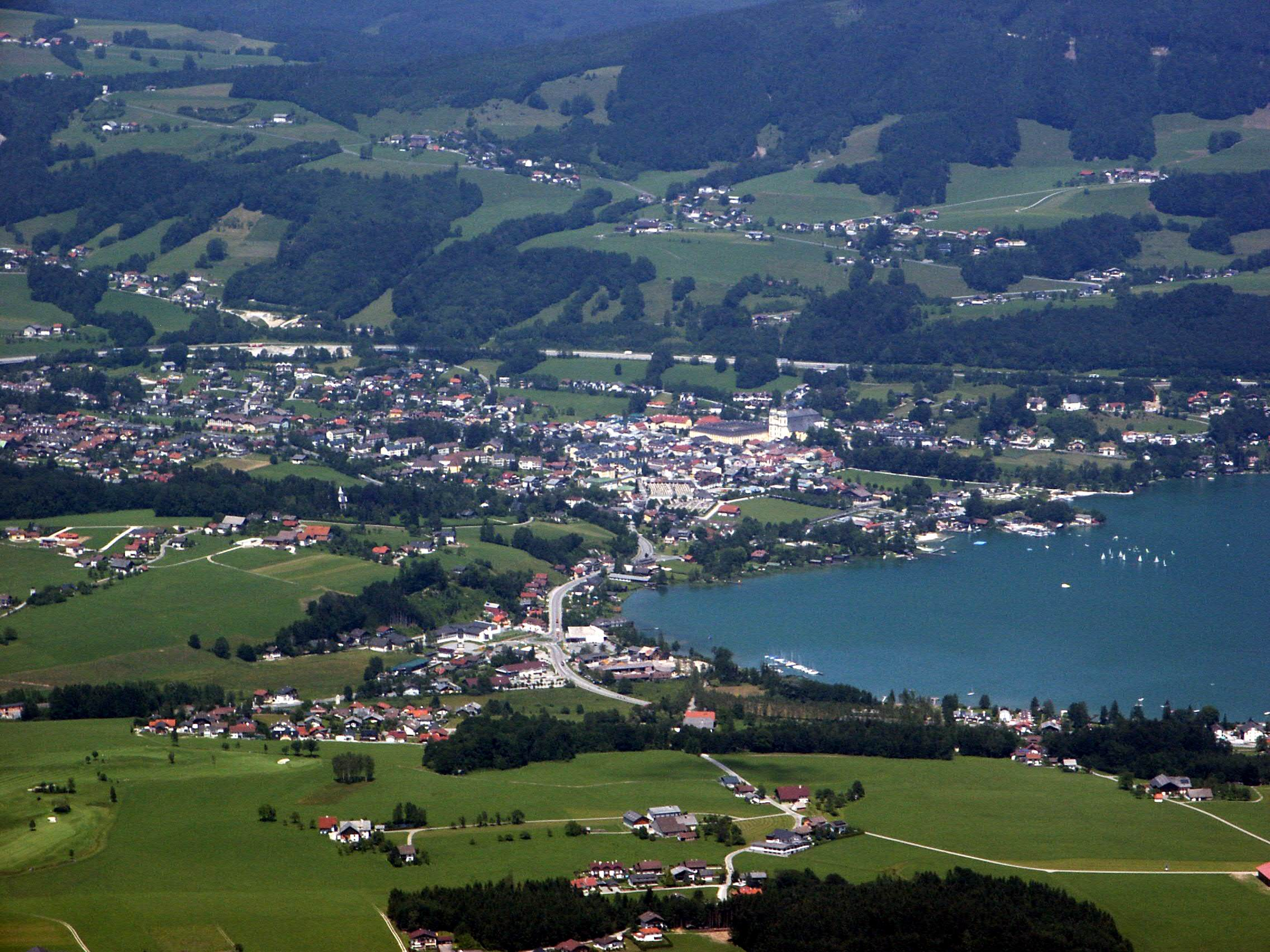 The town Mondsee in Upper Austria and the part of the lake Mondsee. Picture taken from the mountain Schober on 2006-07-03 by myself D.Höss./Birka. licensed under the GFDL